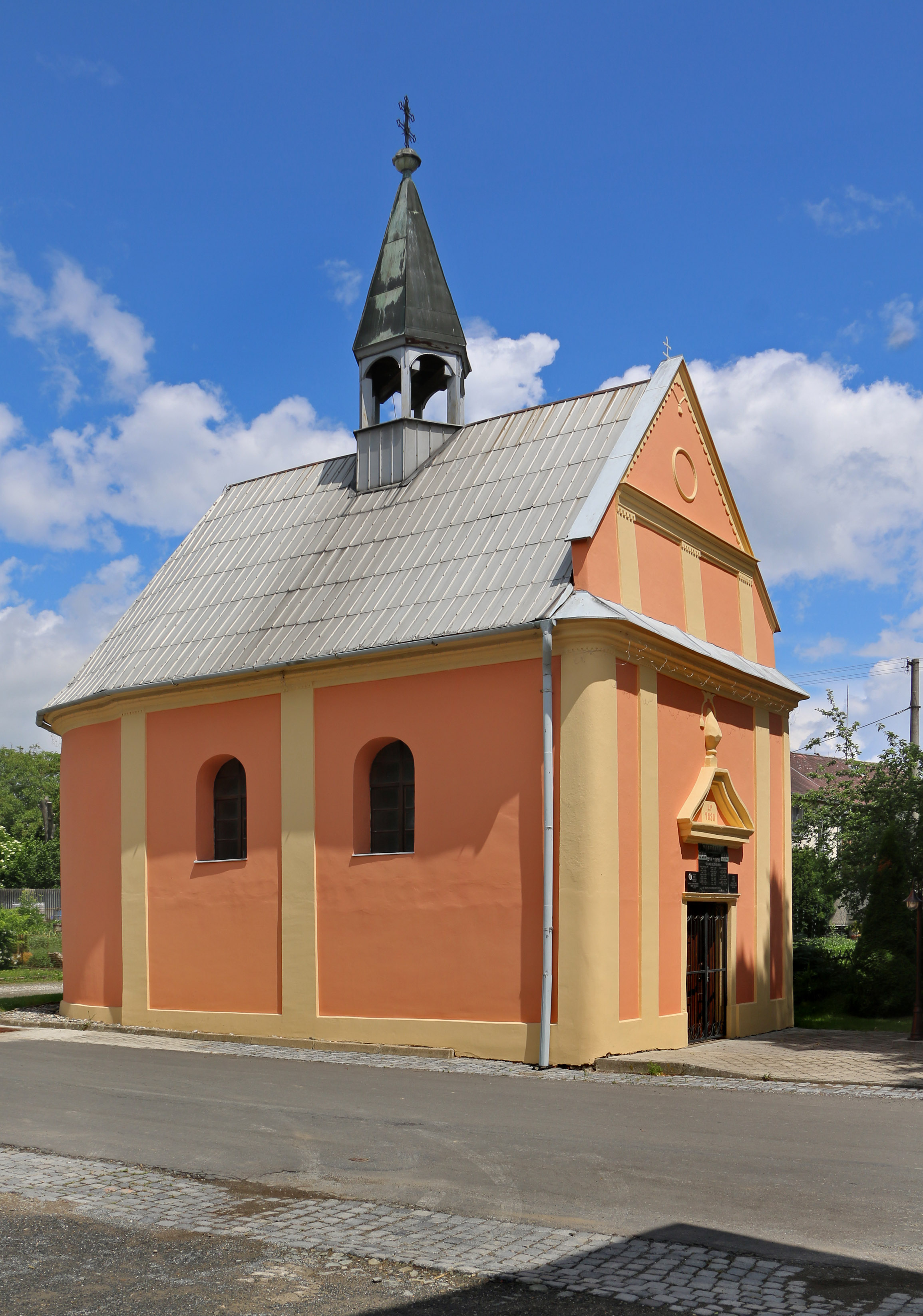 Chapel in Loučka village, Czech Republic.